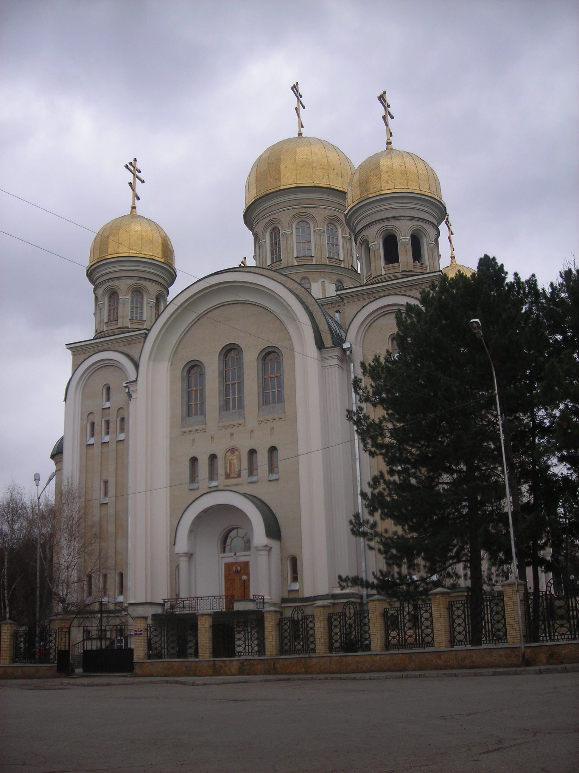 St. Nicholas Cathedral in Kislovodsk